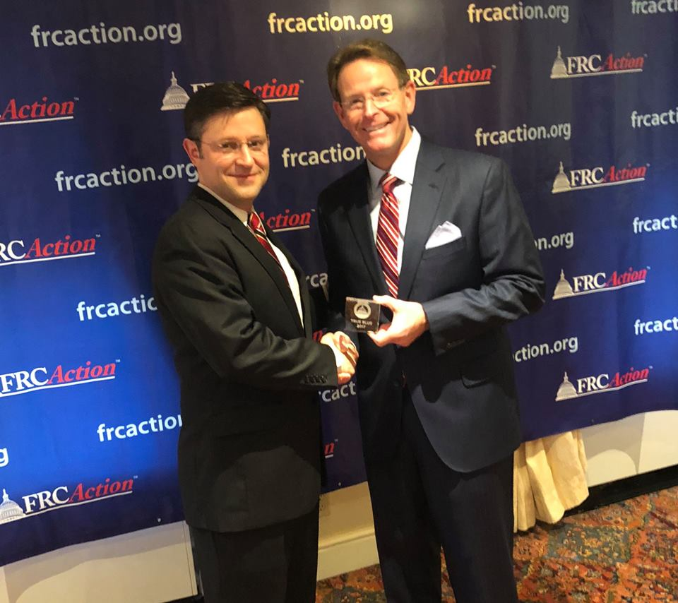 Throughout my career, I have worked tirelessly to support legislation that protects conservative values of faith, family and freedom. This week, I was honored by the Family Research Council with the True Blue Award for my vote on critical bills that protect life and promote fiscal responsibility.